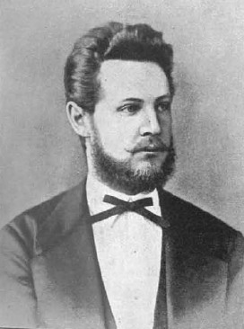 Vladimir Baranovsky (1846-1879), Russian engineer, inventor of the quick-firing gun.